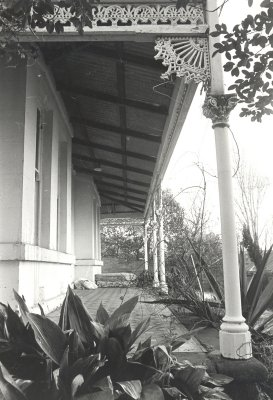 Raywell, Birchgrove